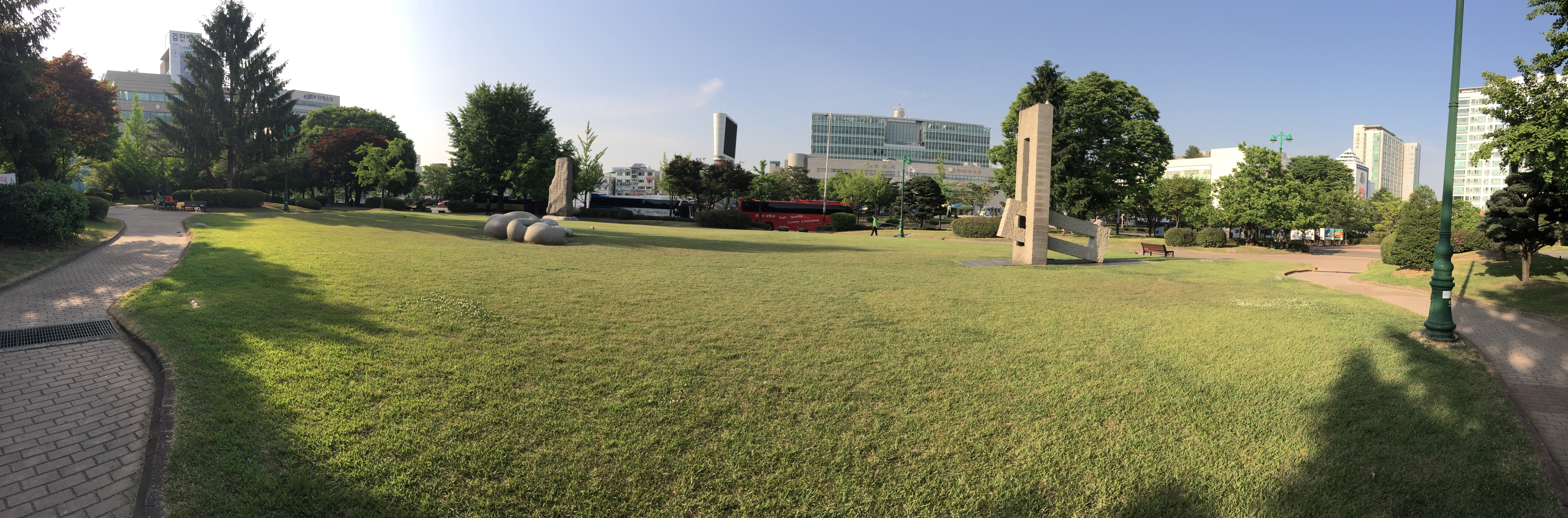 Suwon Olympic Park, Suwon, Gyeonggi-do, South Korea